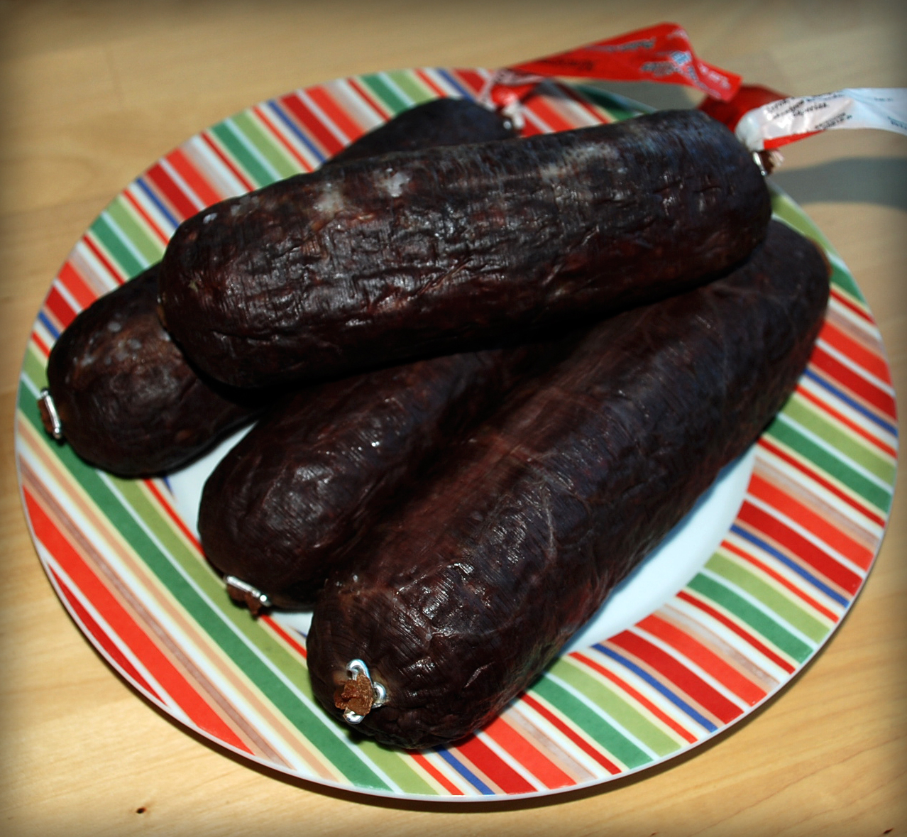 Food in the province of Palencia: Black puddings of rice and onions prepared in Cornón de la Peña (Palencia, Castile and León).